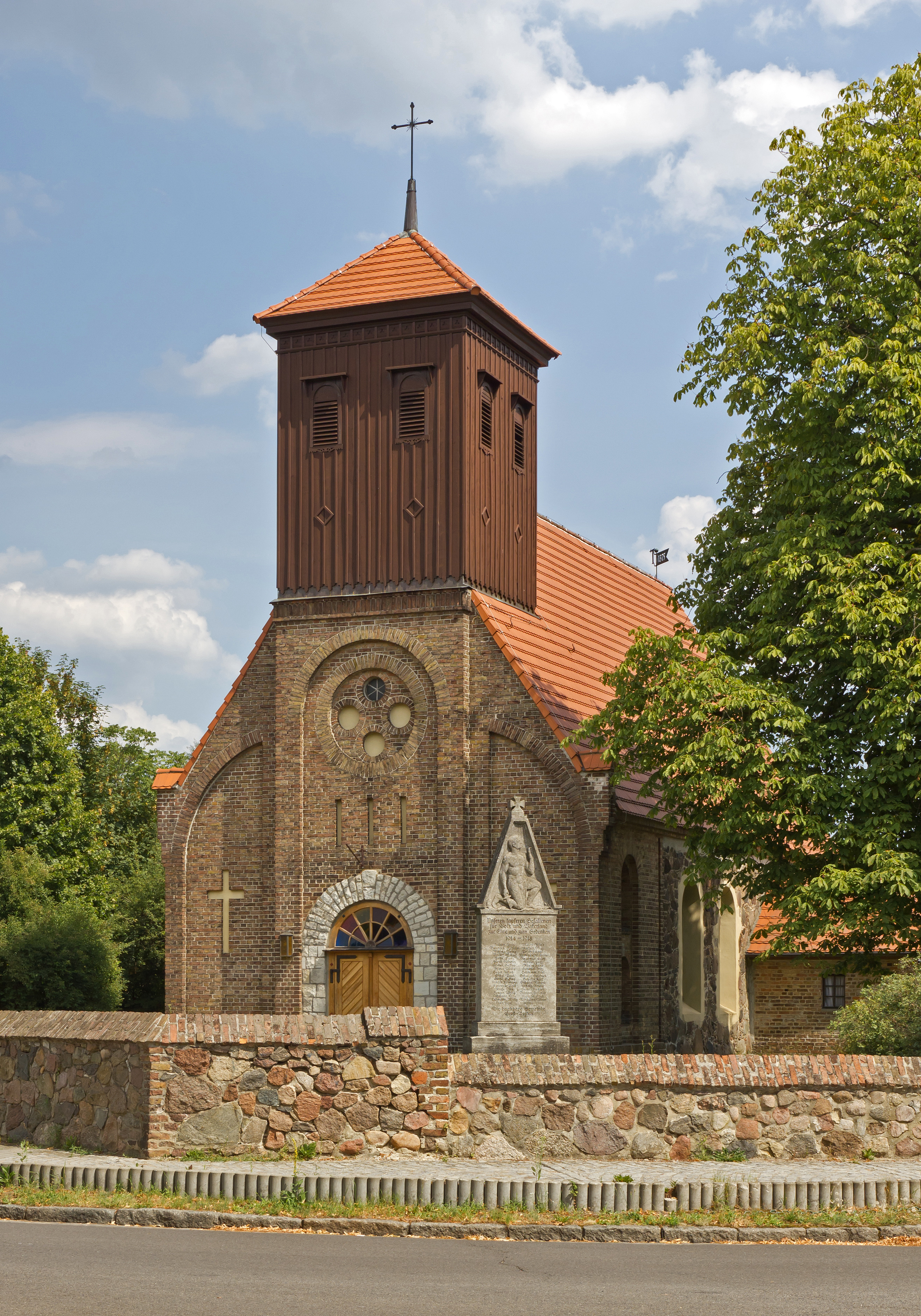 Village church in Bestensee, Brandenburg, Germany